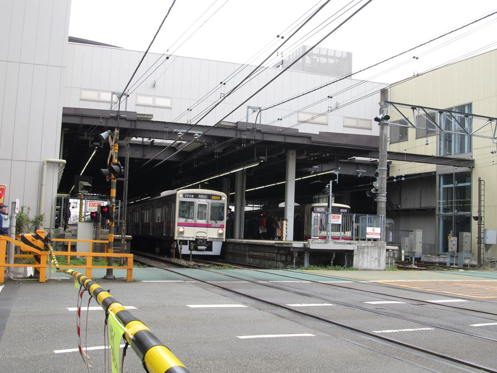 higashi-fuchu station West